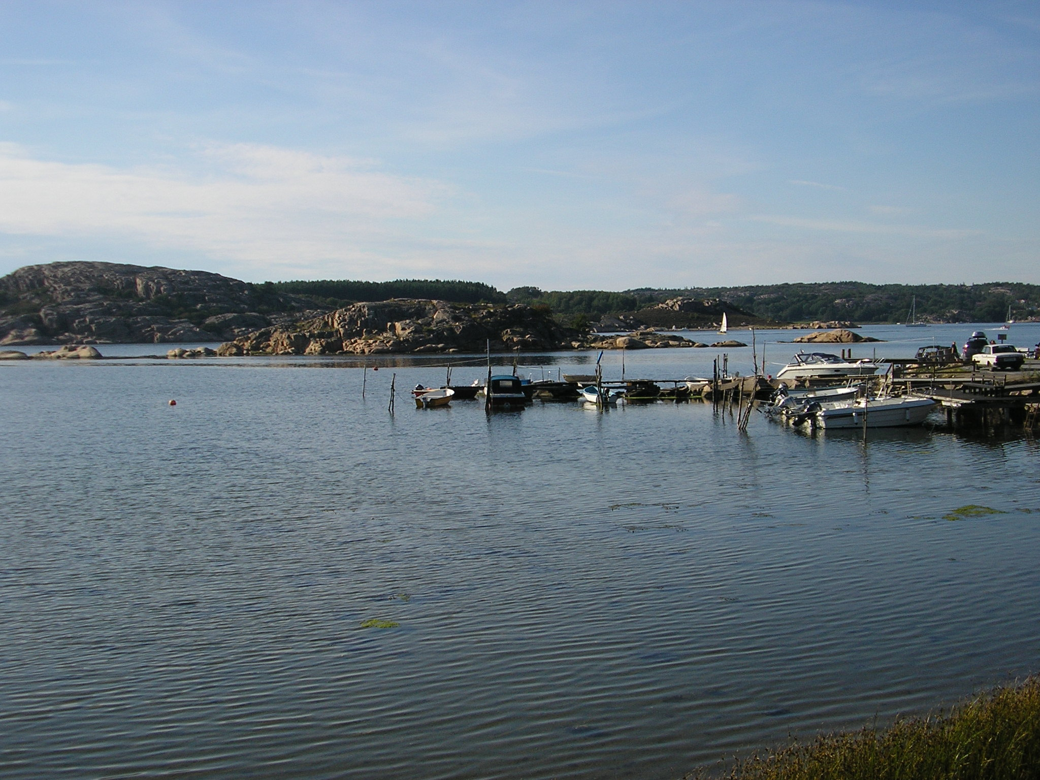 Boats in Slävik (Åbyfjorden, Bohuslän, Sweden).